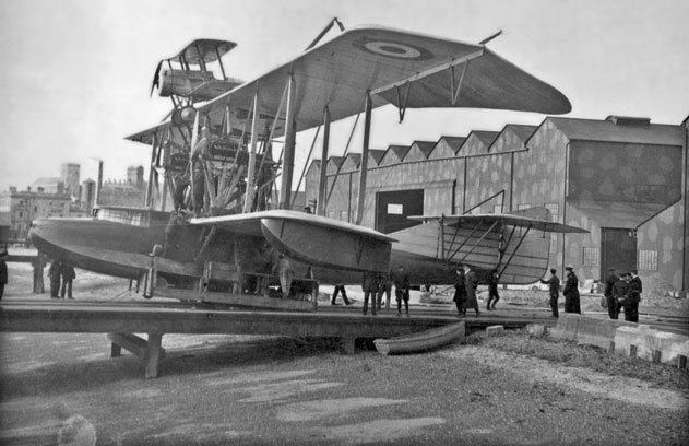 May 1916: First parasite aircraft, a Bristol Scout hooked on the upper wing of Felixstowe Porte Baby flying boat